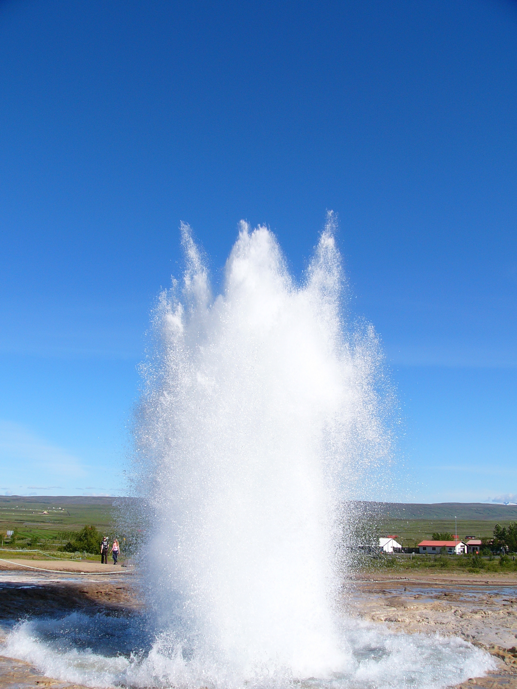 Simon Cole Strokkur, Iceland 24/07/2005